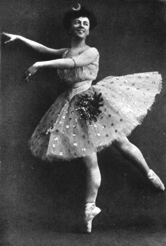 Original Description is here